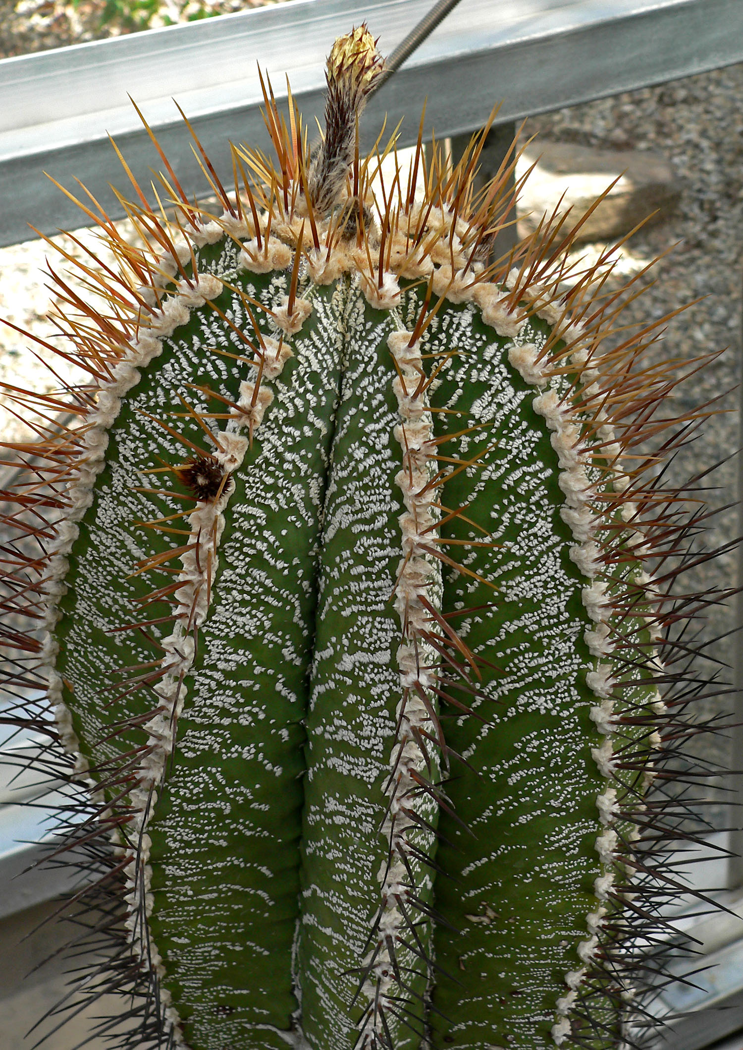 Astrophytum ornatum var. mirbellii at the University of California Botanical Garden, Berkeley, California